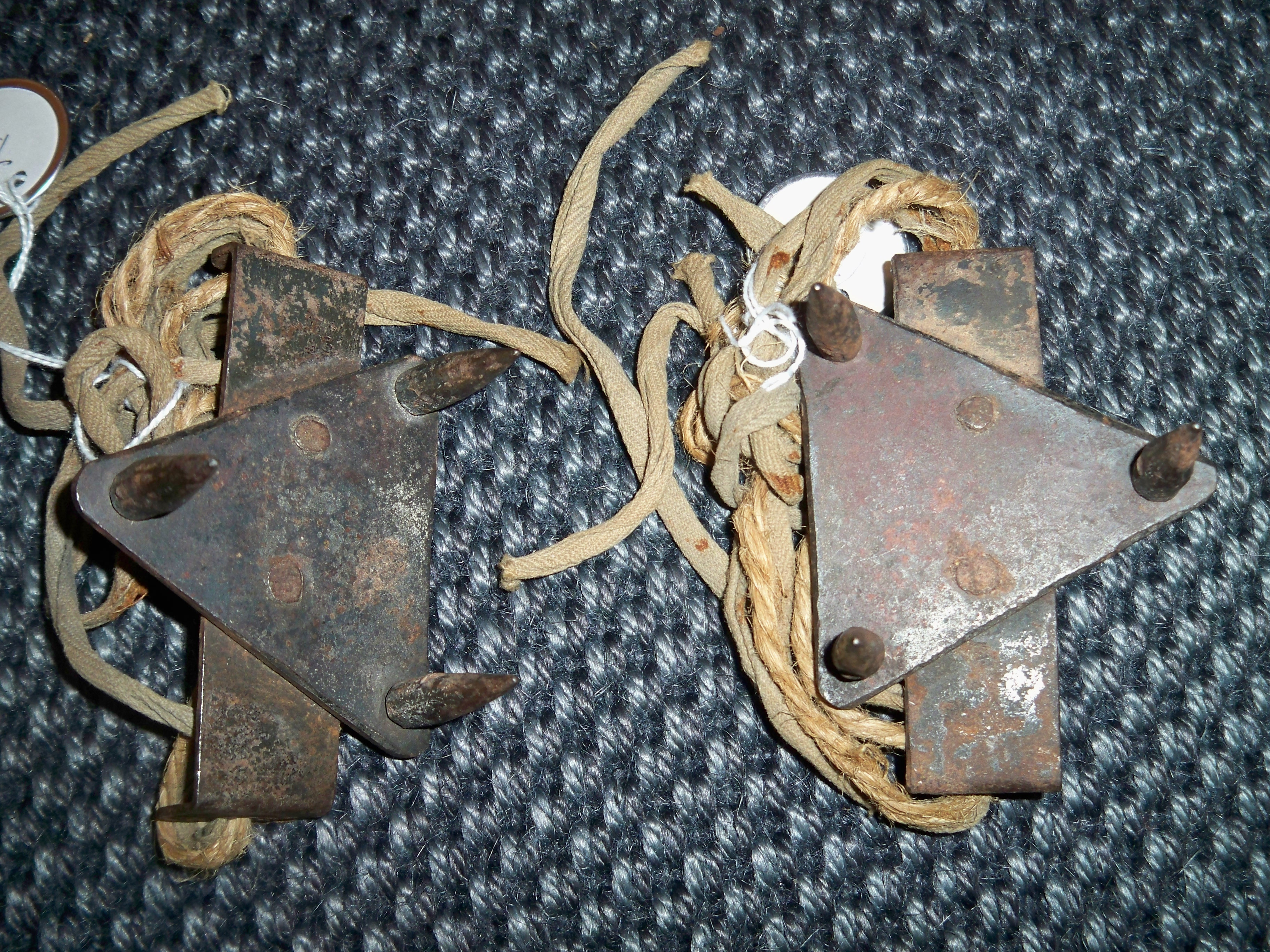 Antique Japanese ashiko, a type of cleat used for climbing and walking on ice or snow.